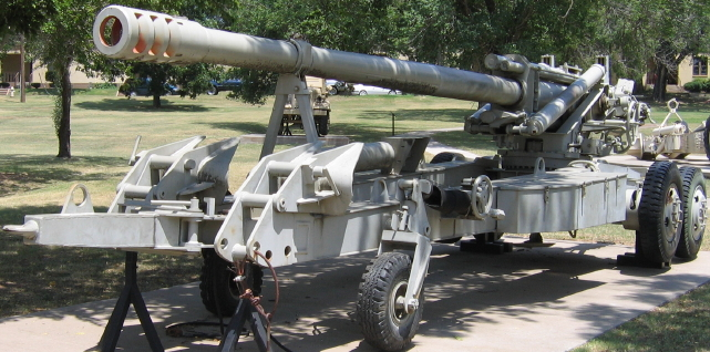 Rear view of ex-Iraqi GHN-45 155-mm howitzer in travel mode at the U.S. Army Field Artillery Museum, Ft. Sill, Oklahoma